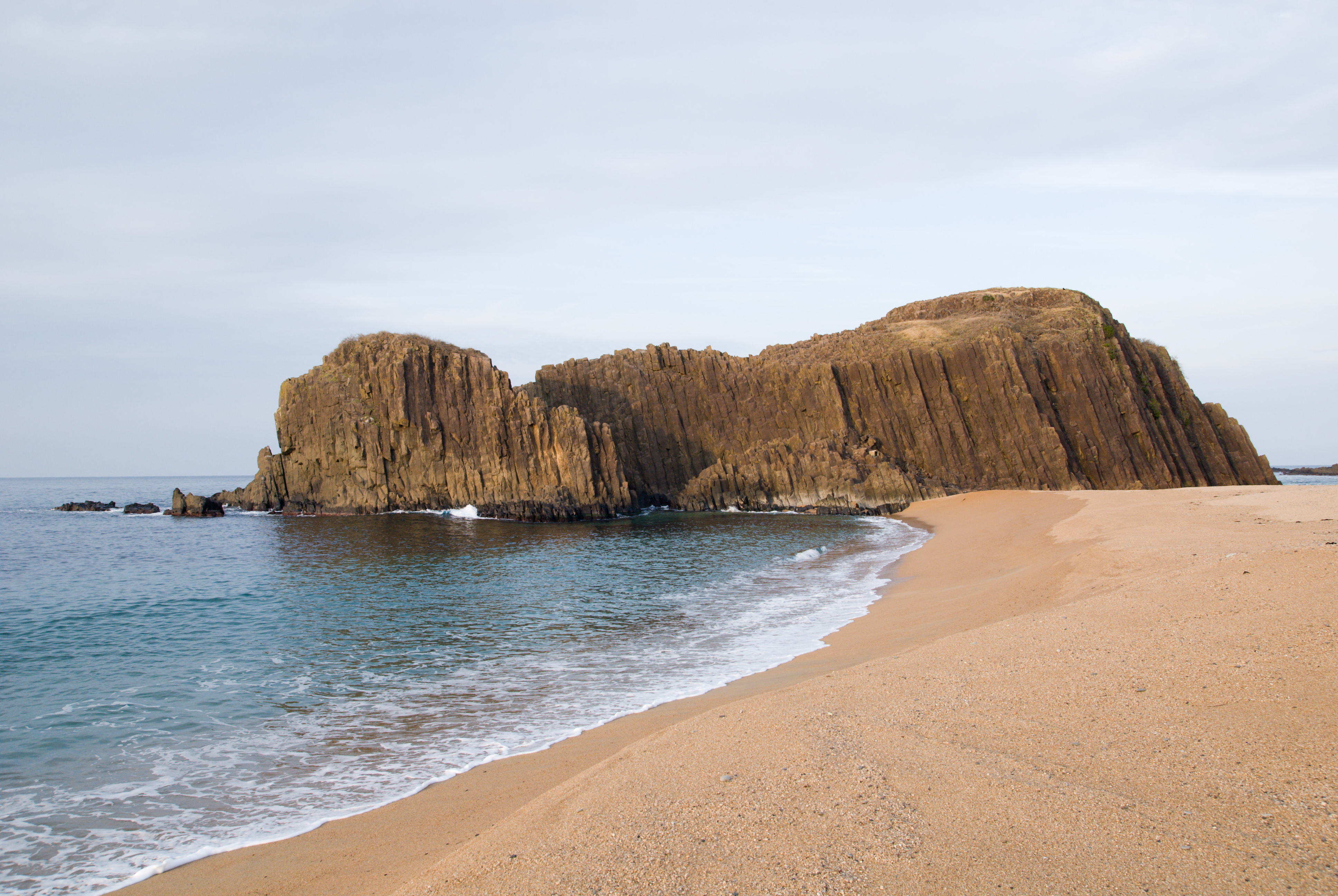 TATUIWA in Kyotango, Kyoto Prefecture, Japan.